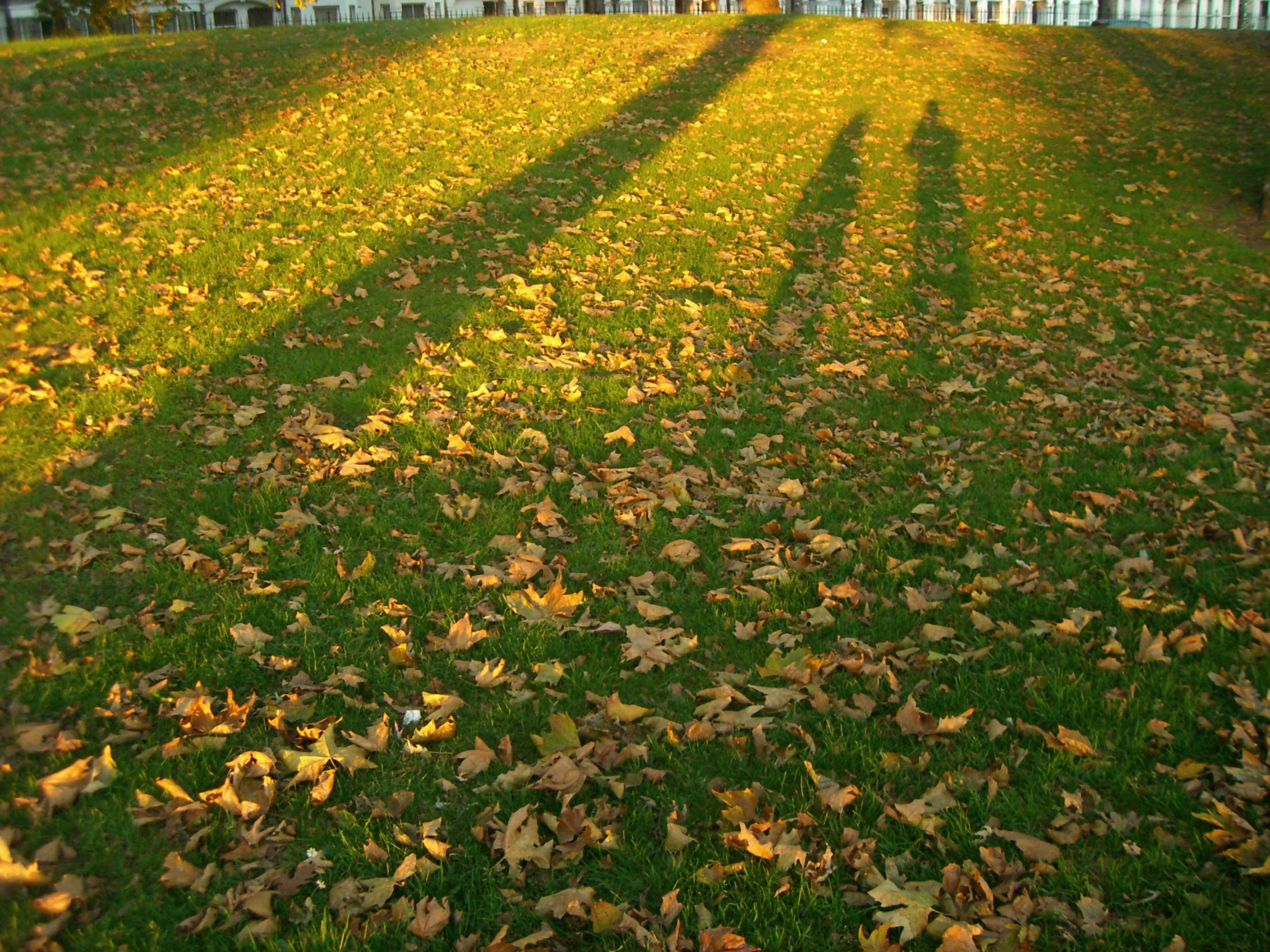 Evening shadows, Southwark Park, London, UK